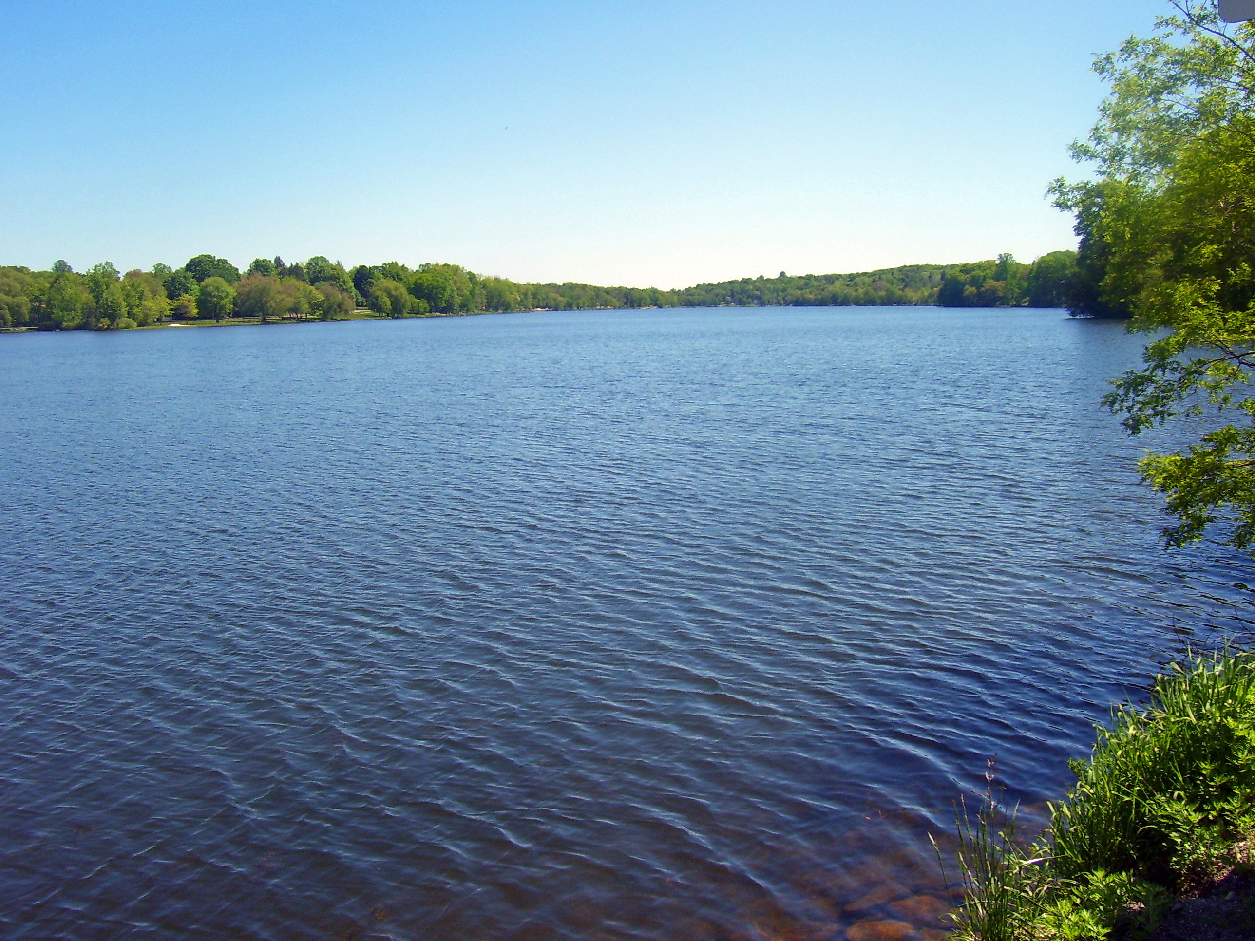 Lake Carmel in the town of Kent, NY, USA, photographed from the junction of NY 52 and NY 311.